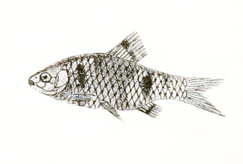 The species names / identity need verification - original names from plate are included here. The original plates showed the fishes facing right and have been flipped here. Barbus photunio